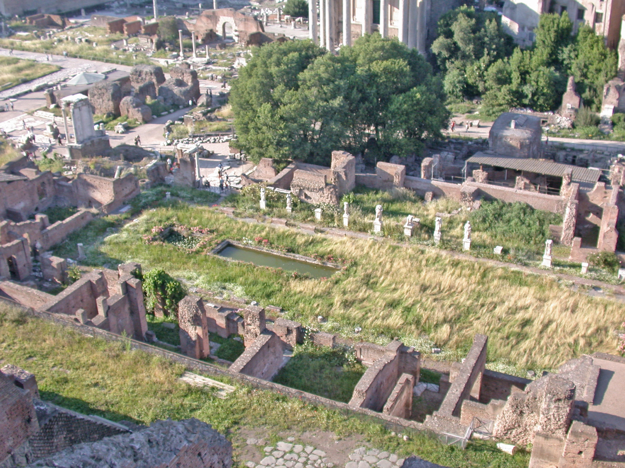 Description: House of the Vestals, western side, and the Temple of Vesta.